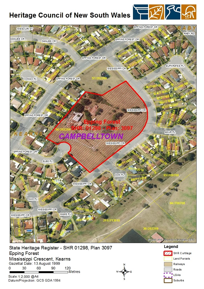 Epping Forest, Kearns: SHR Plan 3097